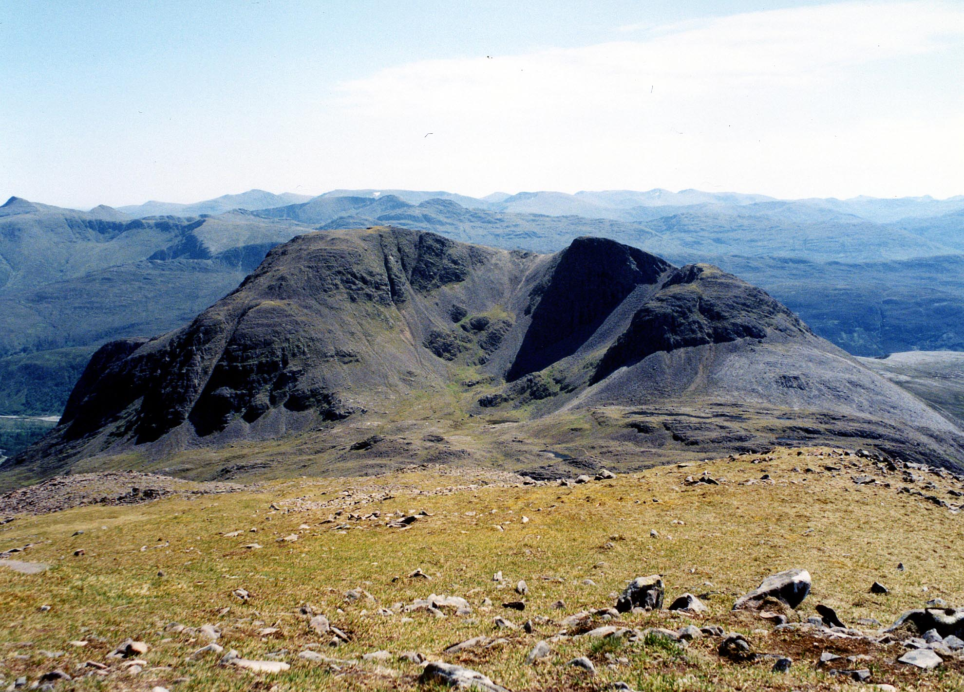 The mountain Fuar Tholl seen from Sgurr Ruadh, 2 km to the NW